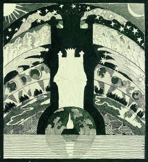 M. K. Čiurlionis "Rex". 1908-1909. Indian ink composition (deluted ink, pencil on paper, 12,0cm × 10,9cm)